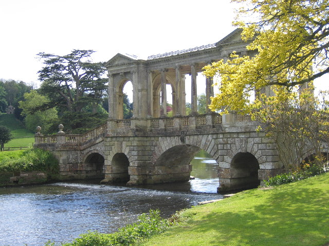 Palladian Bridge over River Nadder, Grounds of Wilton House, Wilton, Wiltshire